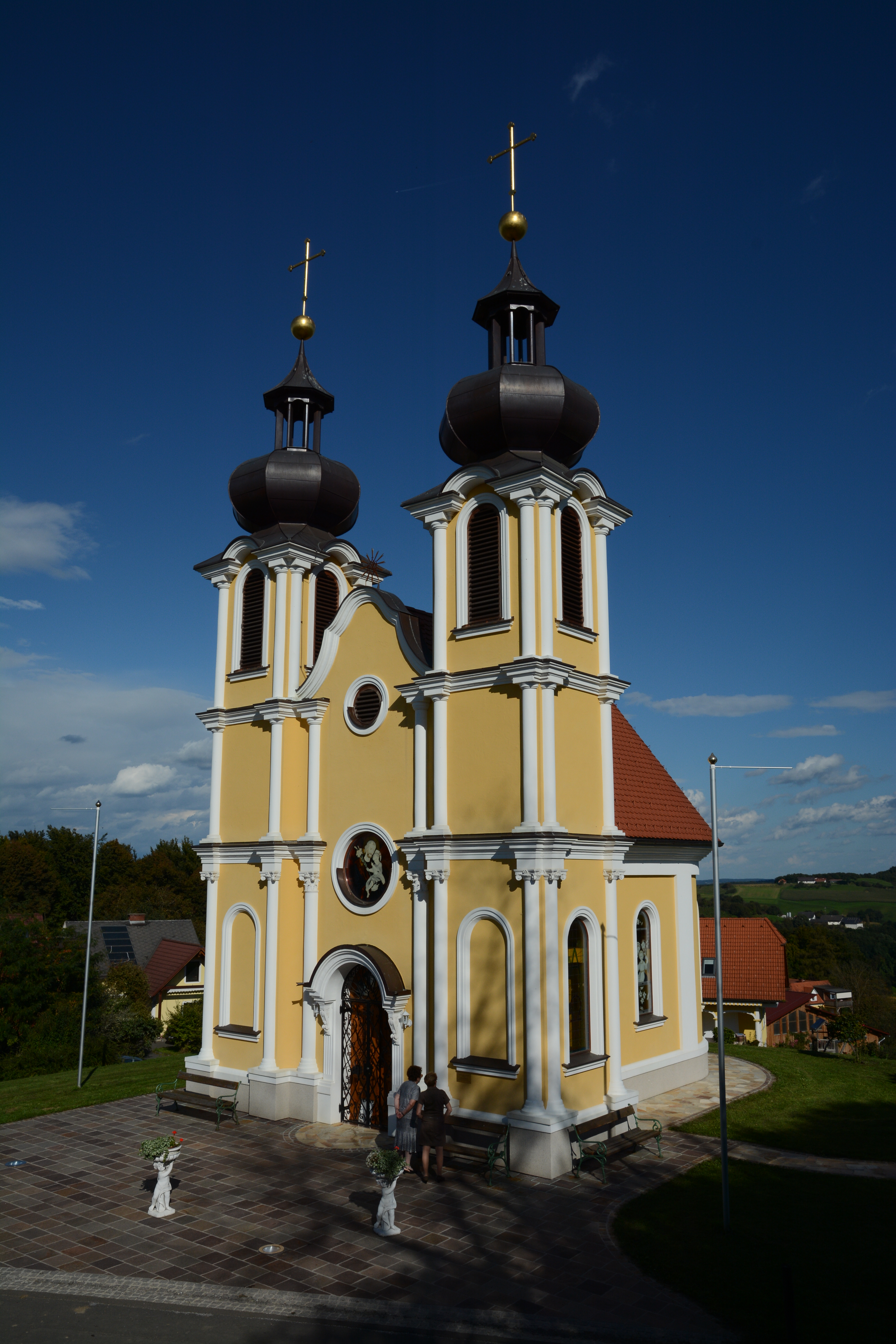 Josefskapelle Oberlamm